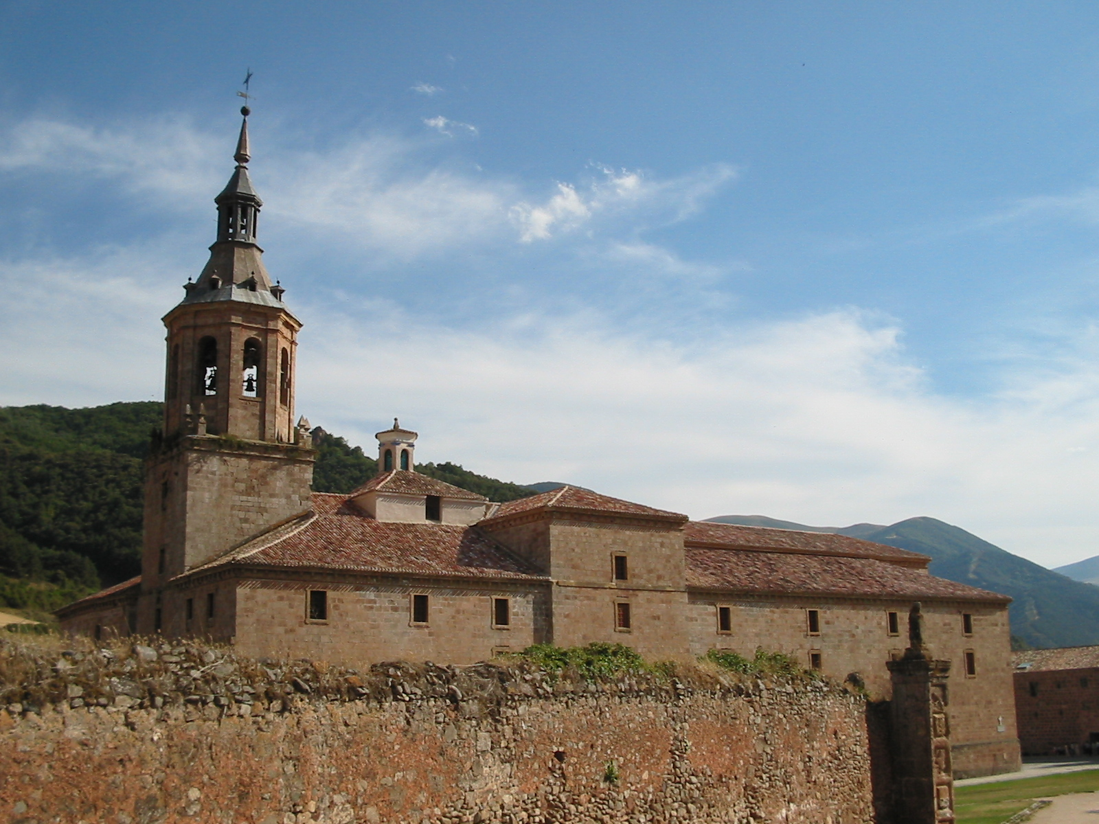 Monastery of Yuso (downhill) of San Millán de la Cogolla in La Rioja (Spain)